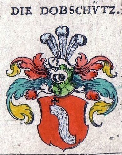 Coat of arms of german family „von Dobschütz“